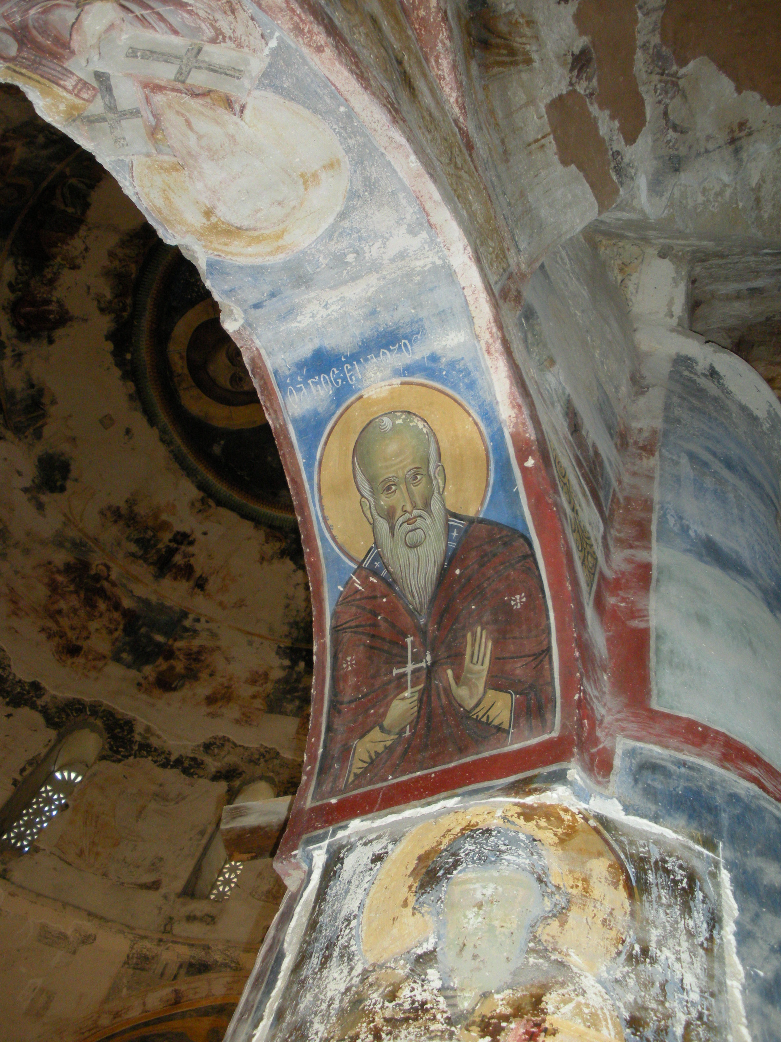 Church of Christ Antiphonitis, saint in the arch of the sanctuary, twelfth century.